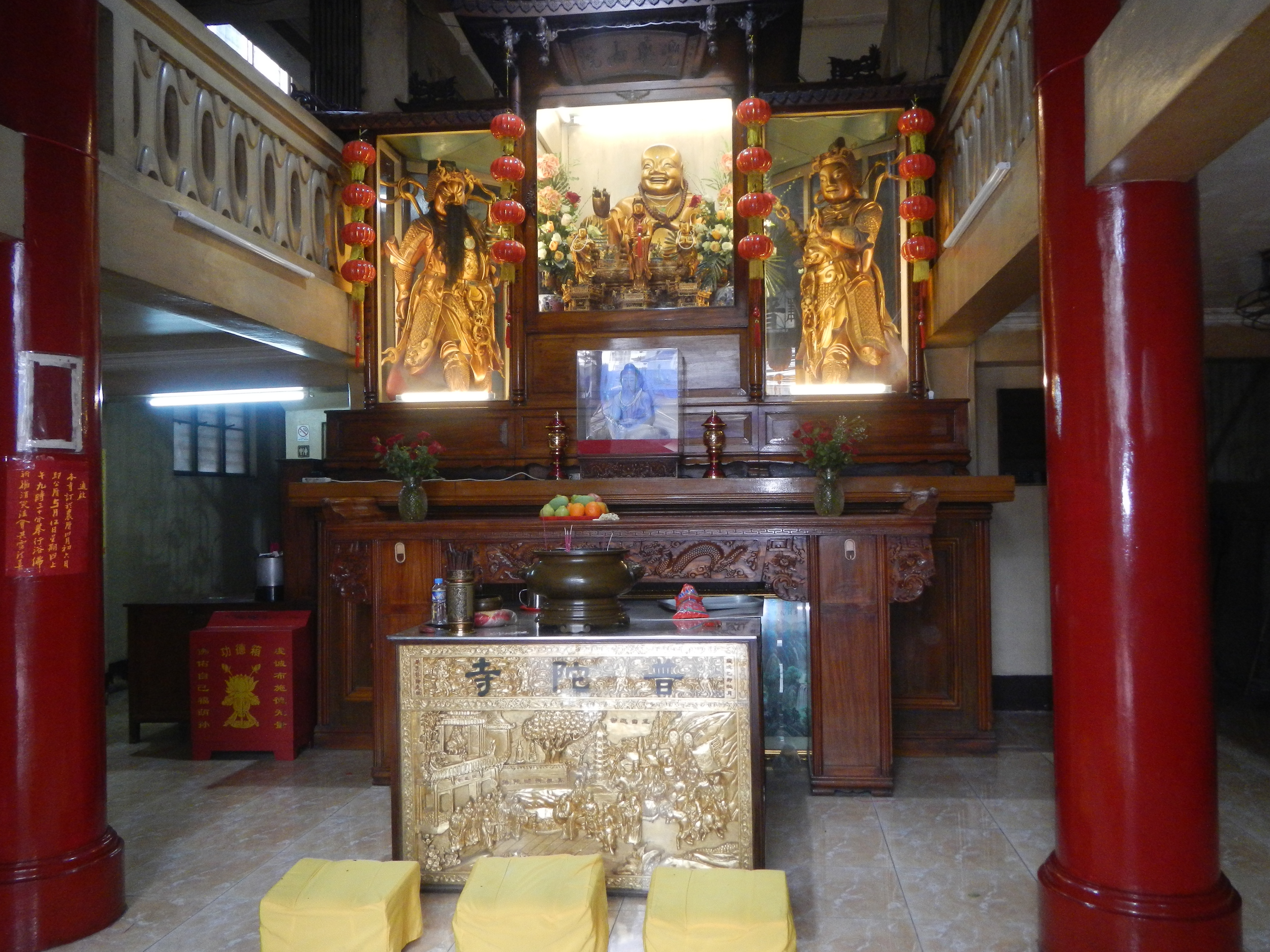 Buddhism in the Philippines List of Buddhist temples Manila Buddha Temple Binondo, 1155 Masangkay Street, Legislative districts of Manila Barangays 262 & 266, Zone 24, 2nd District, City of Manila, List of Cultural Properties of Santa Cruz List of Cultural Properties of the Philippines in Metro Manila, Binondo.